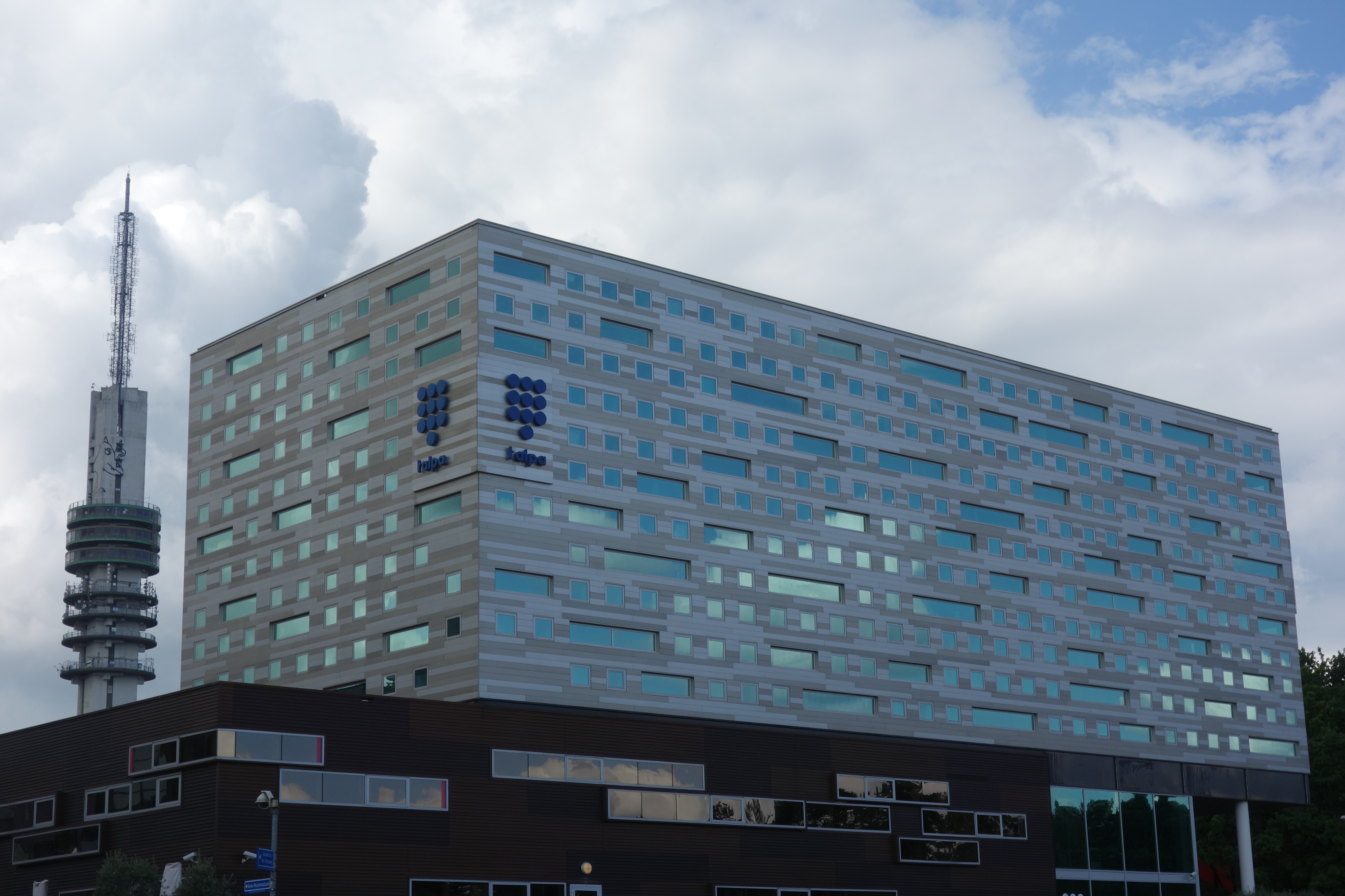 Talpa, Media Park Hilversum, the Netherlands (2017)